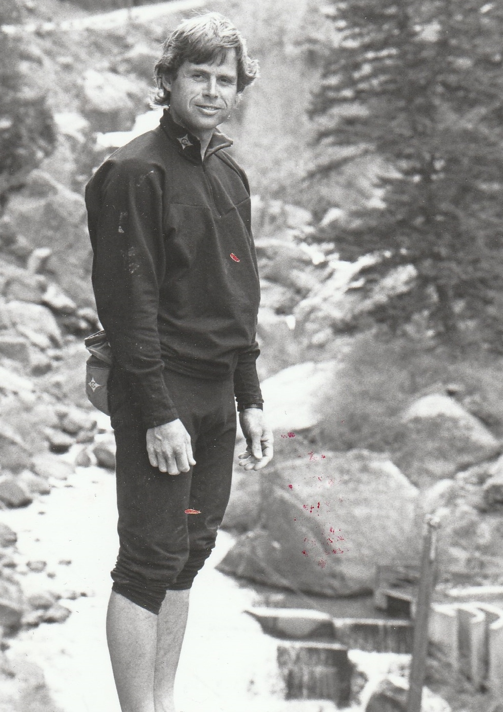 Peter Croft was soloing about, on the Bastille, and paused for a photo. Photo by Pat Ament.